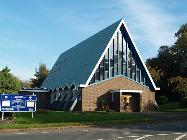 St James the Great parish church, Clayton, near Newcastle-under-Lyme, Staffordshire, seen from other side of A519 which passes in front of church. Note the A-frame construction and copper-covered roof.